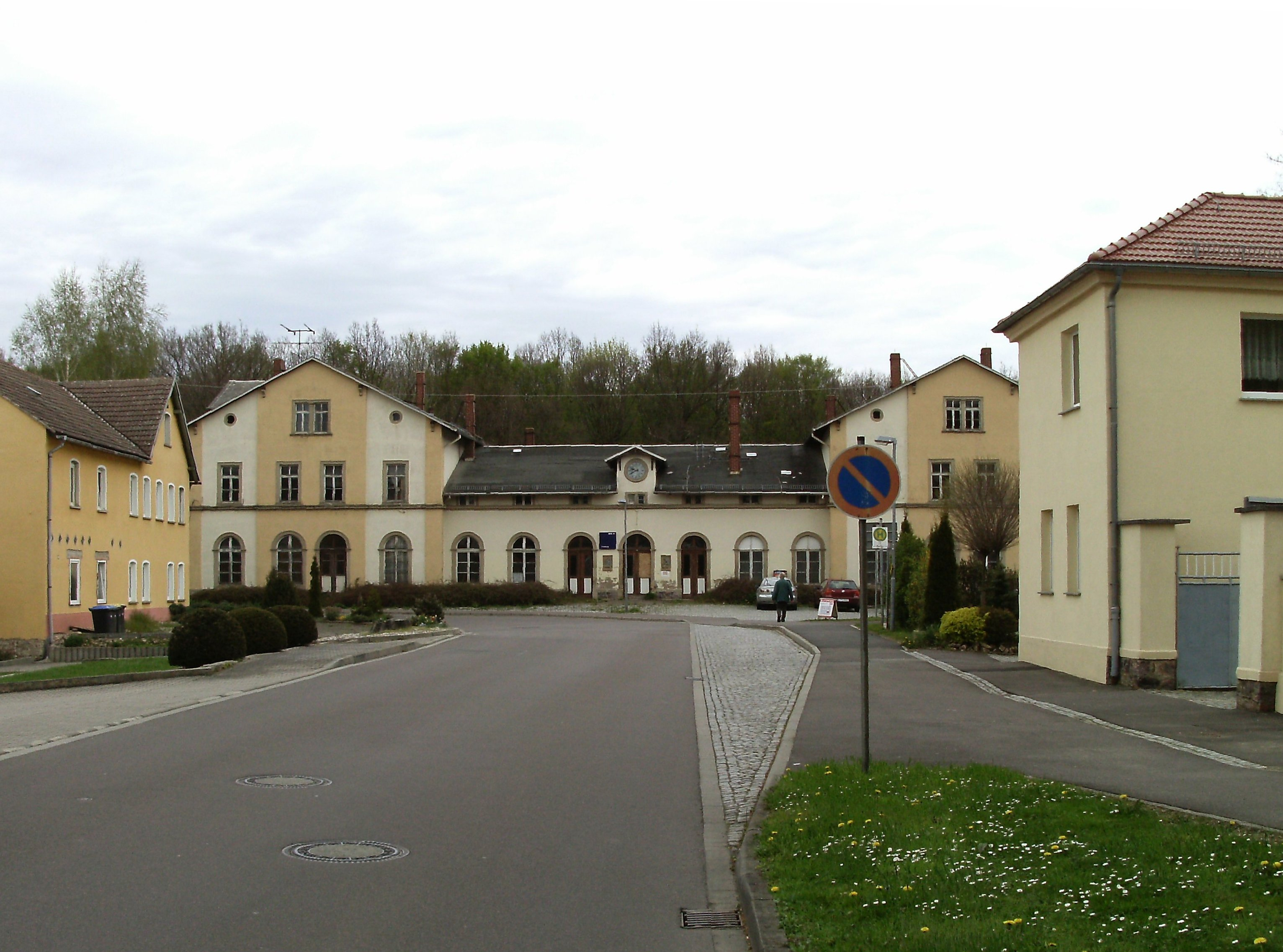 Frohburg train station (Leipzig district, Saxony)